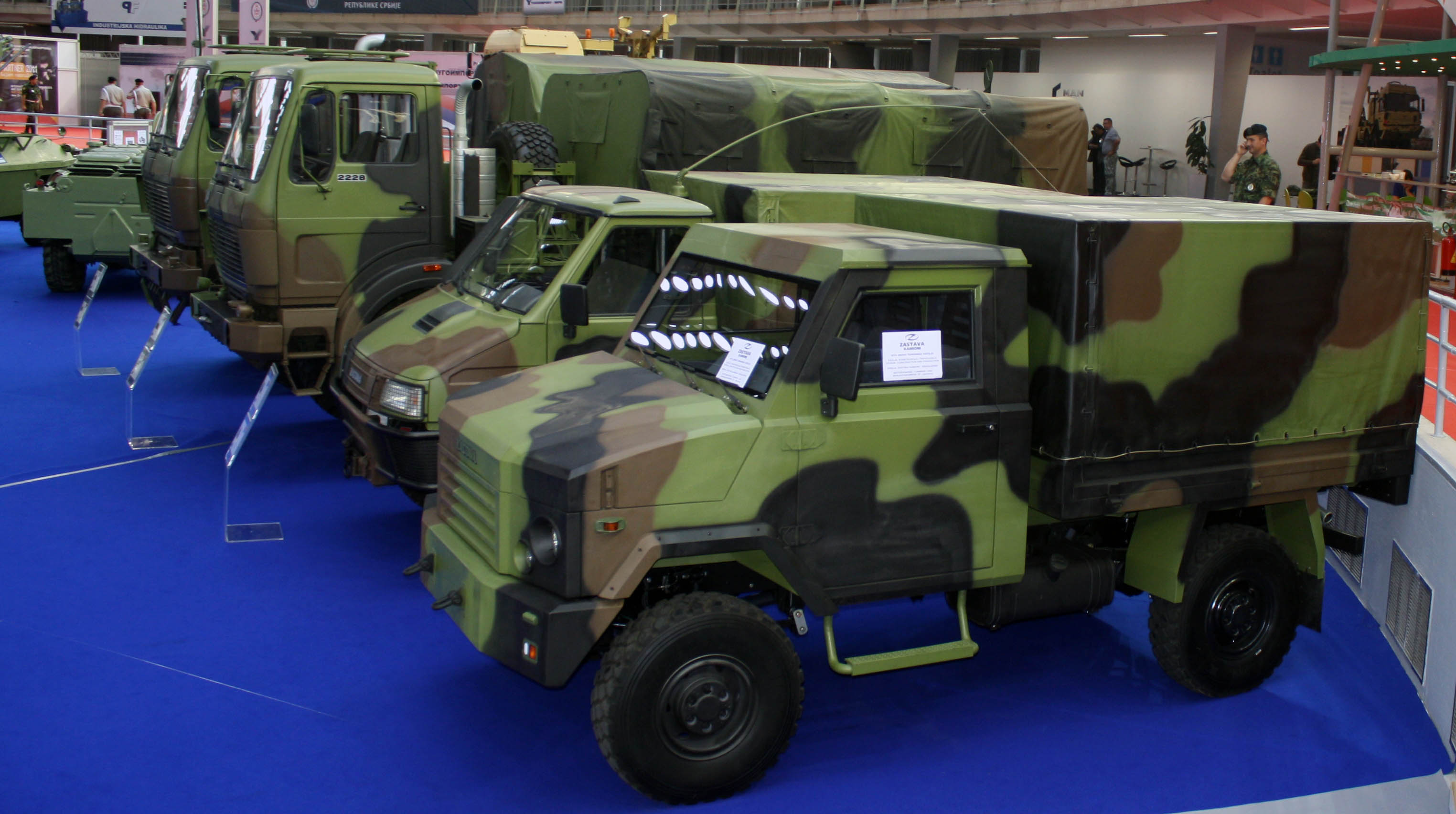 New Zastava 40.10H military 4x4 light truck on display at "Partner 2011" military fair. Unknown